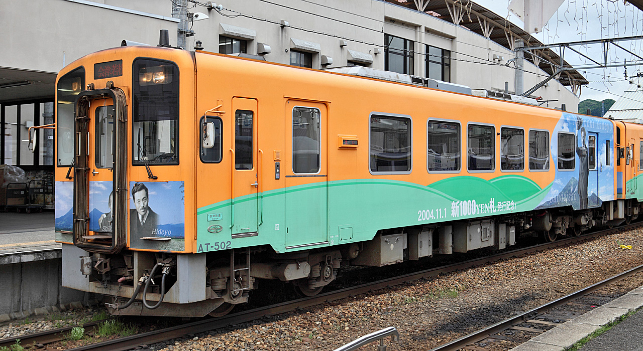 Aizu Railway Type AT-500 DMU (AT-502)